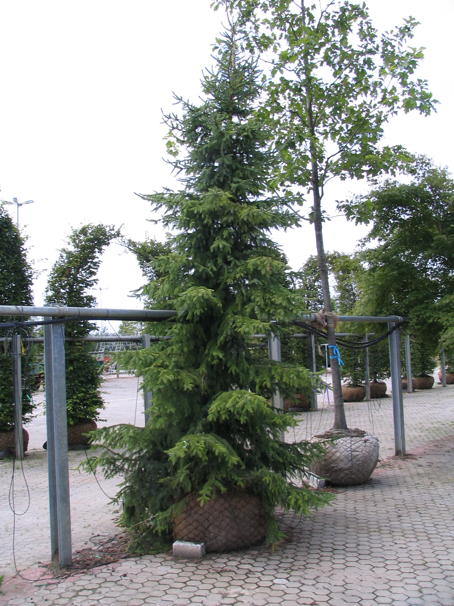 Nursery stocks of Picea omorika & Quercus rubra, Bruns nurseries (photo: Mihailo Grbić)